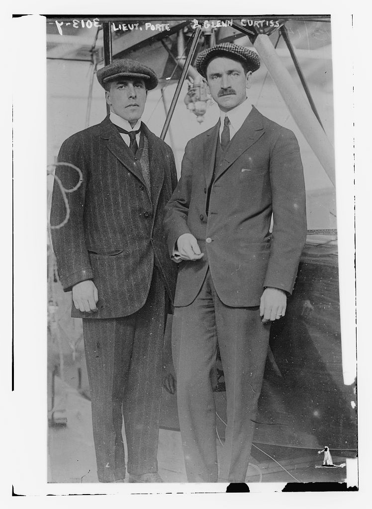 Lt. John Cyril Porte and Glenn Curtiss in 1914 (LOC) Bain News Service,, publisher. Lt. Porte and Glenn Curtiss [between ca. 1910 and ca. 1915] 1 negative : glass ; 5 x 7 in. or smaller. Notes: Title from unverified data provided by the Bain News Service on the negatives or caption cards. Forms part of: George Grantham Bain Collection (Library of Congress). Format: Glass negatives. Repository: Library of Congress, Prints and Photographs Division, Washington, D.C. 20540 USA, General information about the Bain Collection is available at Persistent URL: Call Number: LC-B2- 3013-9